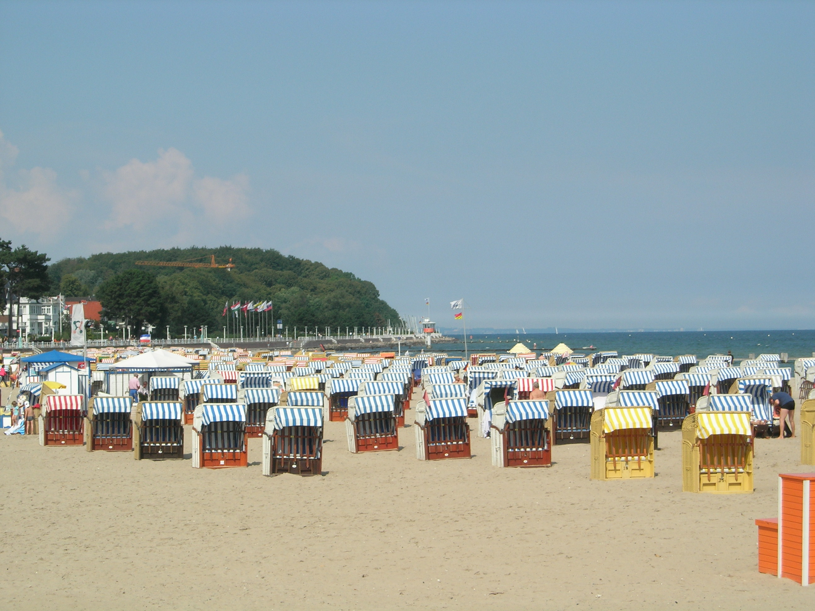 A beach of Travemunde